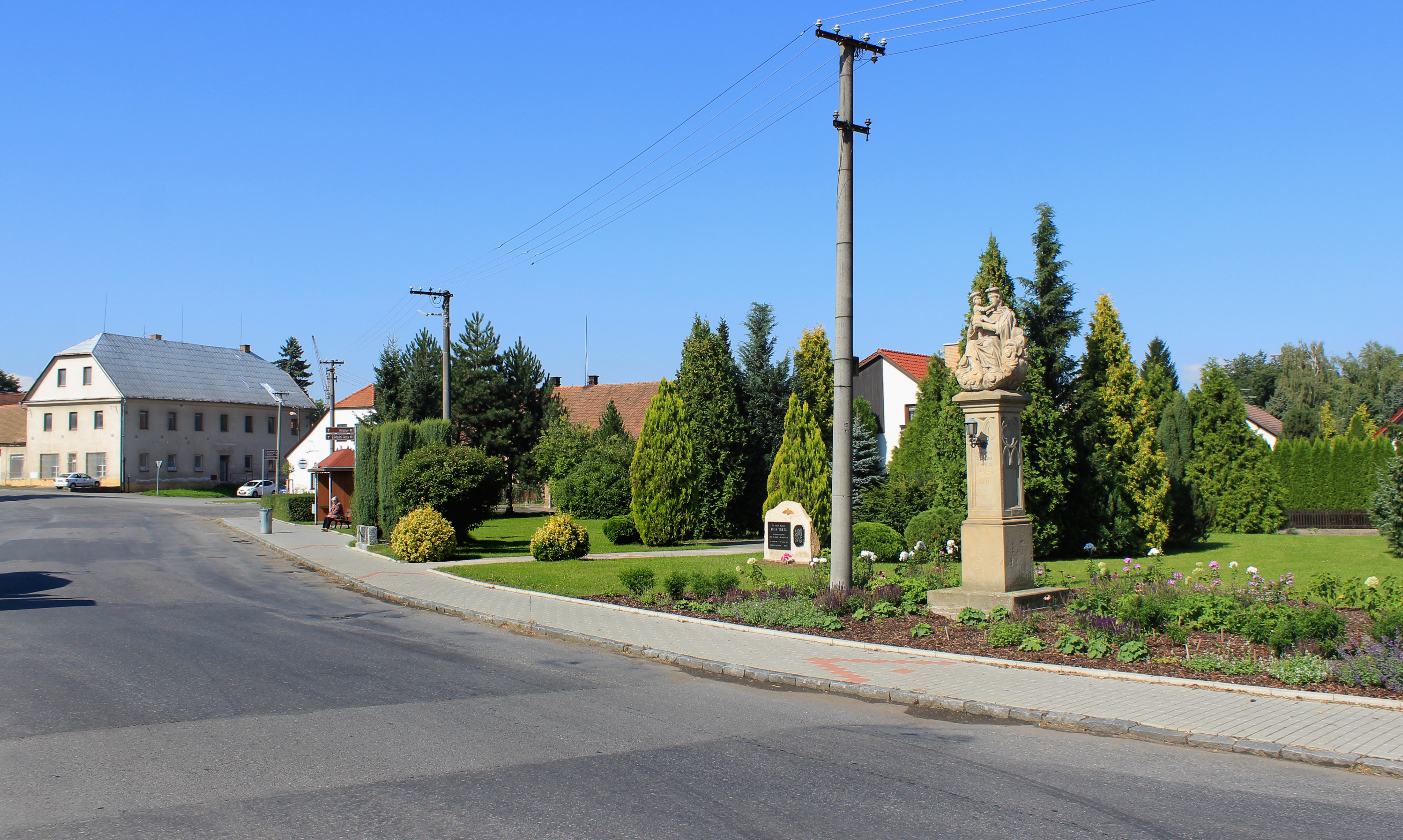 Common in Cerekvice nad Loučnou, Czech Republic.